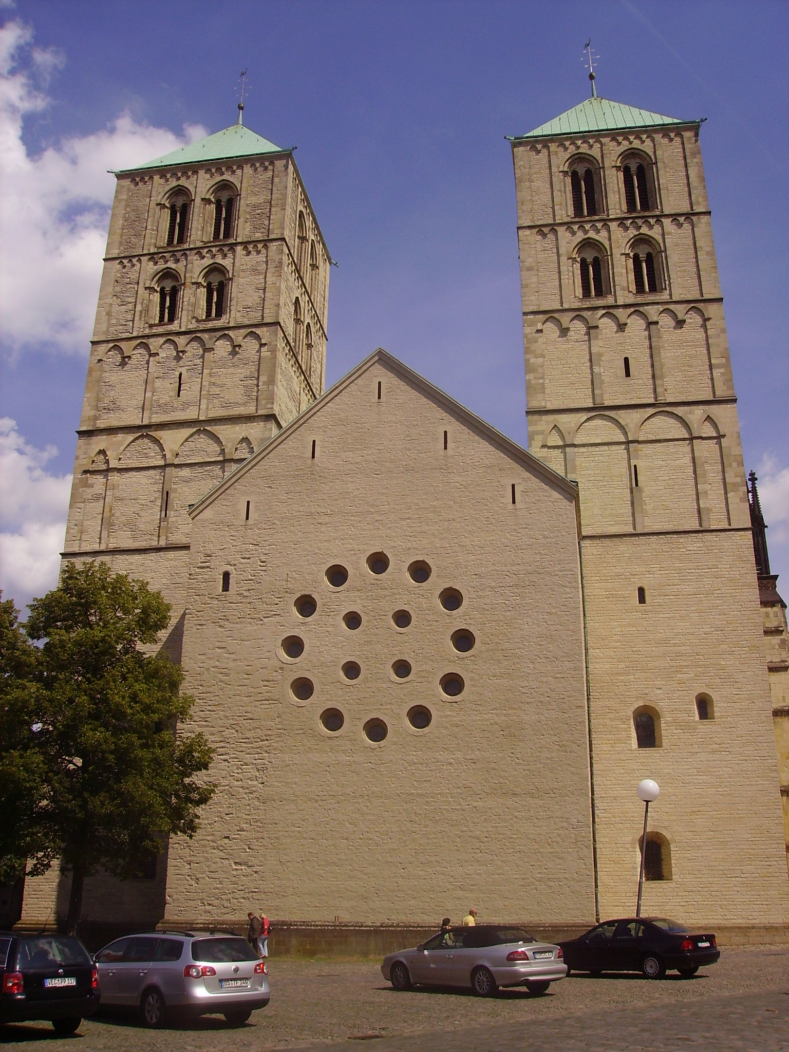 Facade of the catholic Cathedral/Minster St. Paulus, Münster